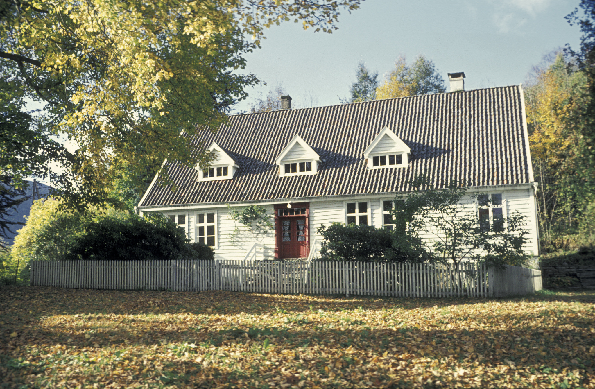 Hovedbygningen ved Fjelberg prestegård. Fra Kulturminnebilder.no.